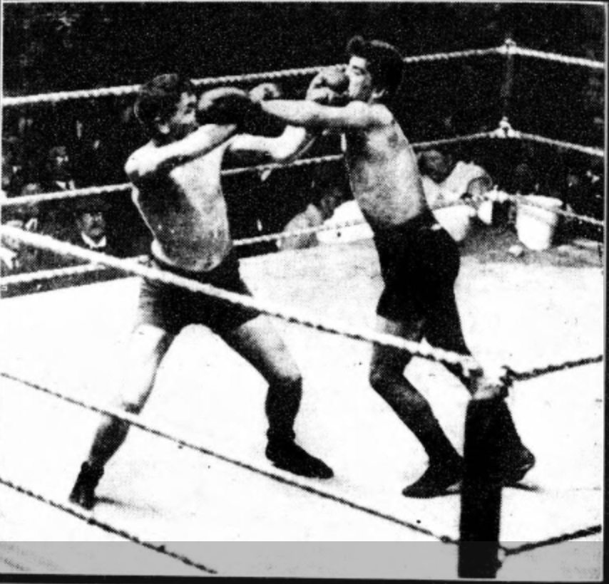 Pat O'Keeffe vs Nicol Simpson, 28 April 1914